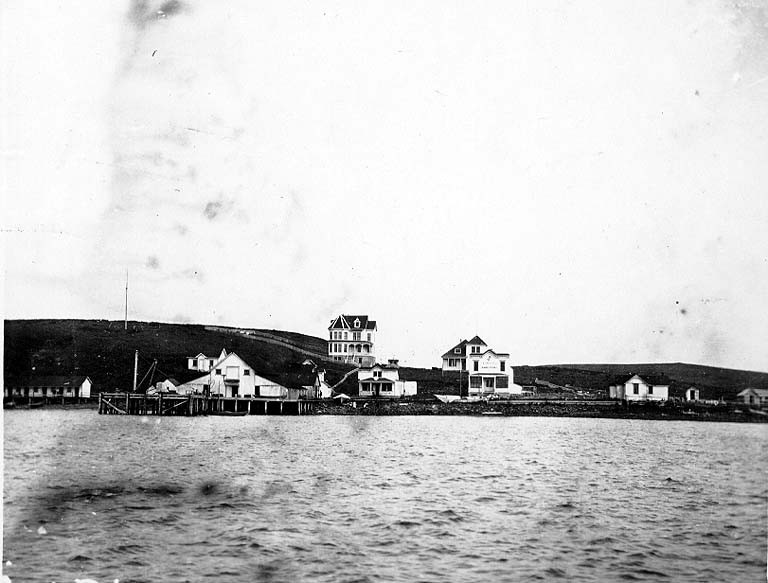 On verso of image: Sand Point In Folder 29 Subjects (LCSH): Sand Point (Alaska); Fishing villages--Alaska